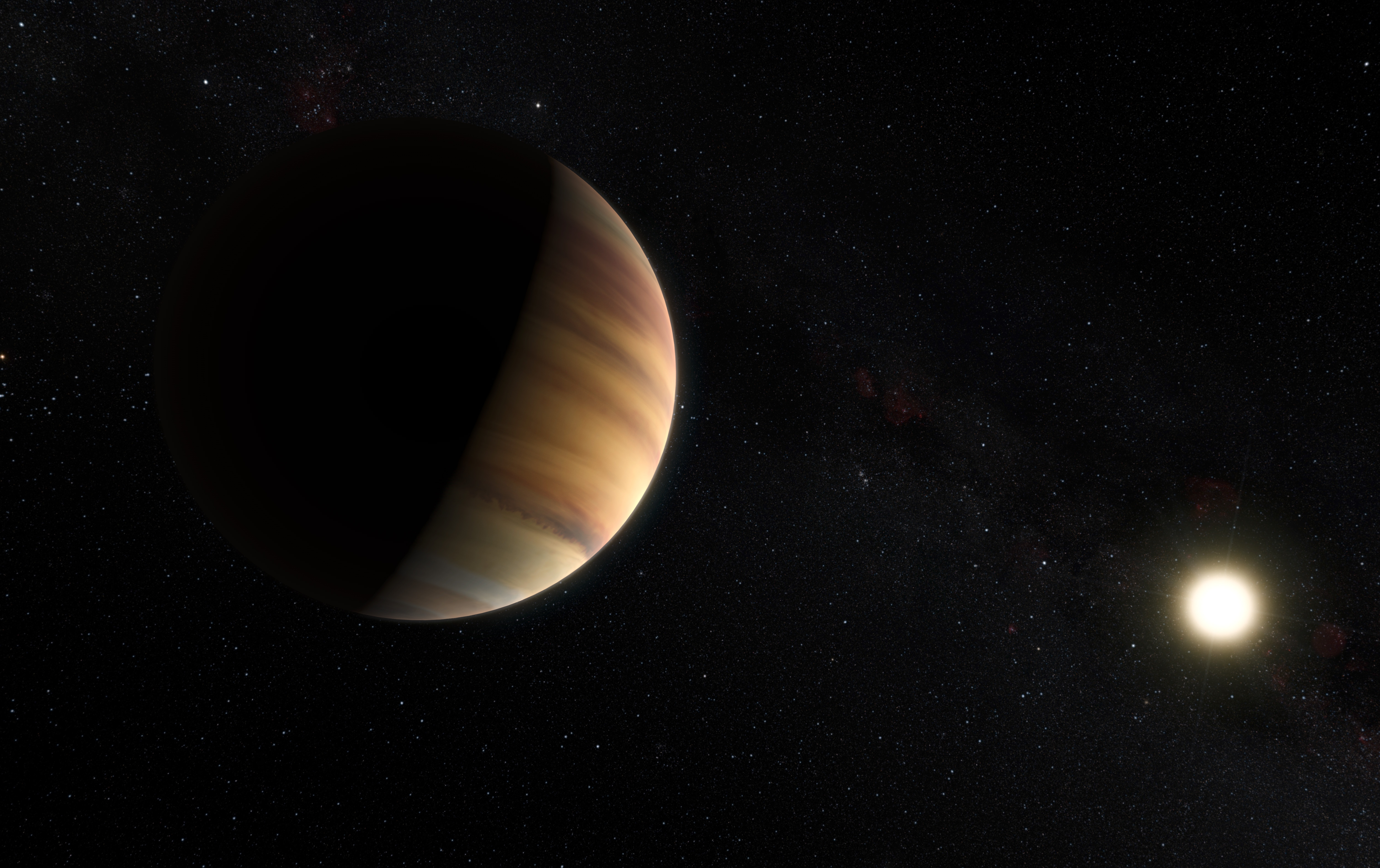 This artist’s view shows the hot Jupiter exoplanet 51 Pegasi b, sometimes referred to as Bellerophon, which orbits a star about 50 light-years from Earth in the northern constellation of Pegasus (The Winged Horse). This was the first exoplanet around a normal star to be found in 1995. Twenty years later this object was also the first exoplanet to be be directly detected spectroscopically in visible light.